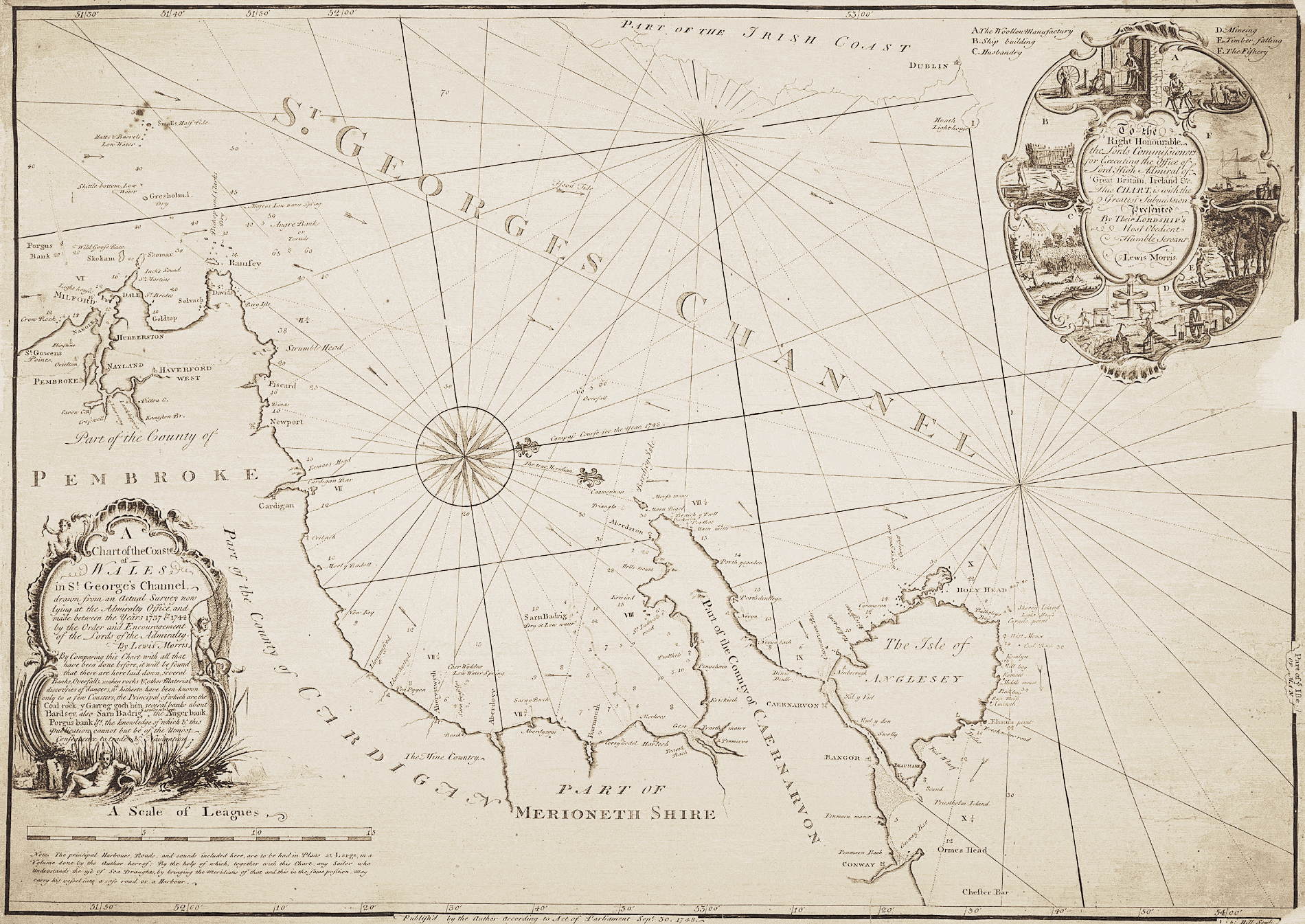 Lewis Morris' coastal charts of Wales. In 1748 Admiralty encouraged the publication of Morris private survey of the Welsh coast and individual harbour plans. They were published privately that September.